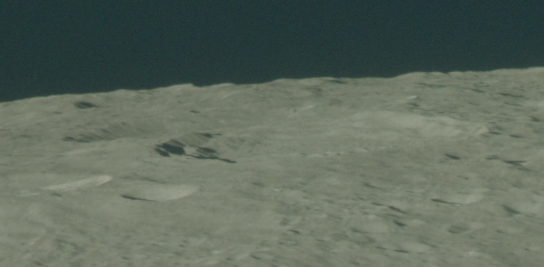 Oblique view of Von Neumann crater (center right), and Ley crater behind and slightly left of it, on the far side of the moon, facing north.